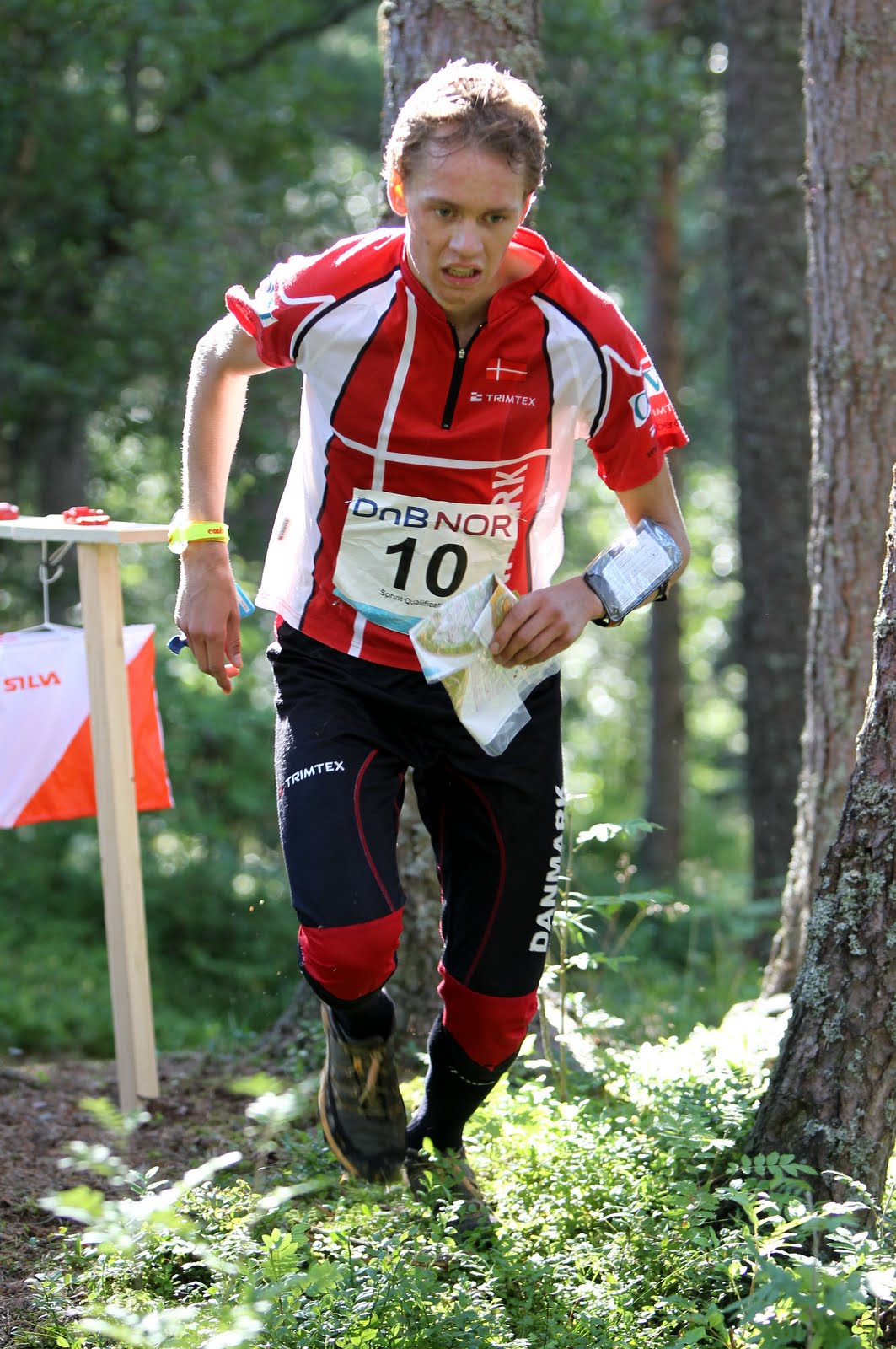 Rasmus Thrane Hansen at World Orienteering Championships 2010 in Trondheim, Norway